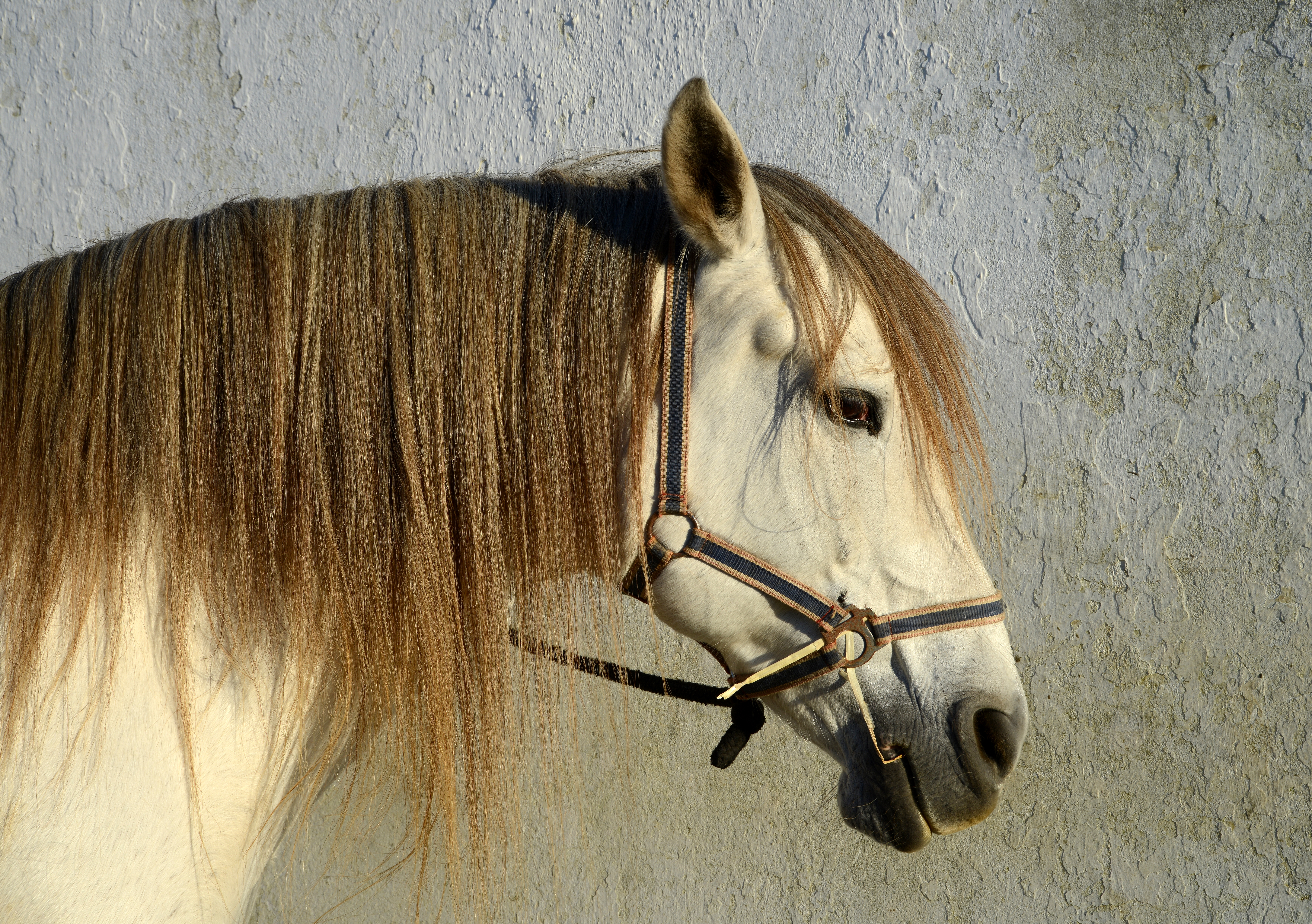 Portrait of a Lusitano horse, Portugal